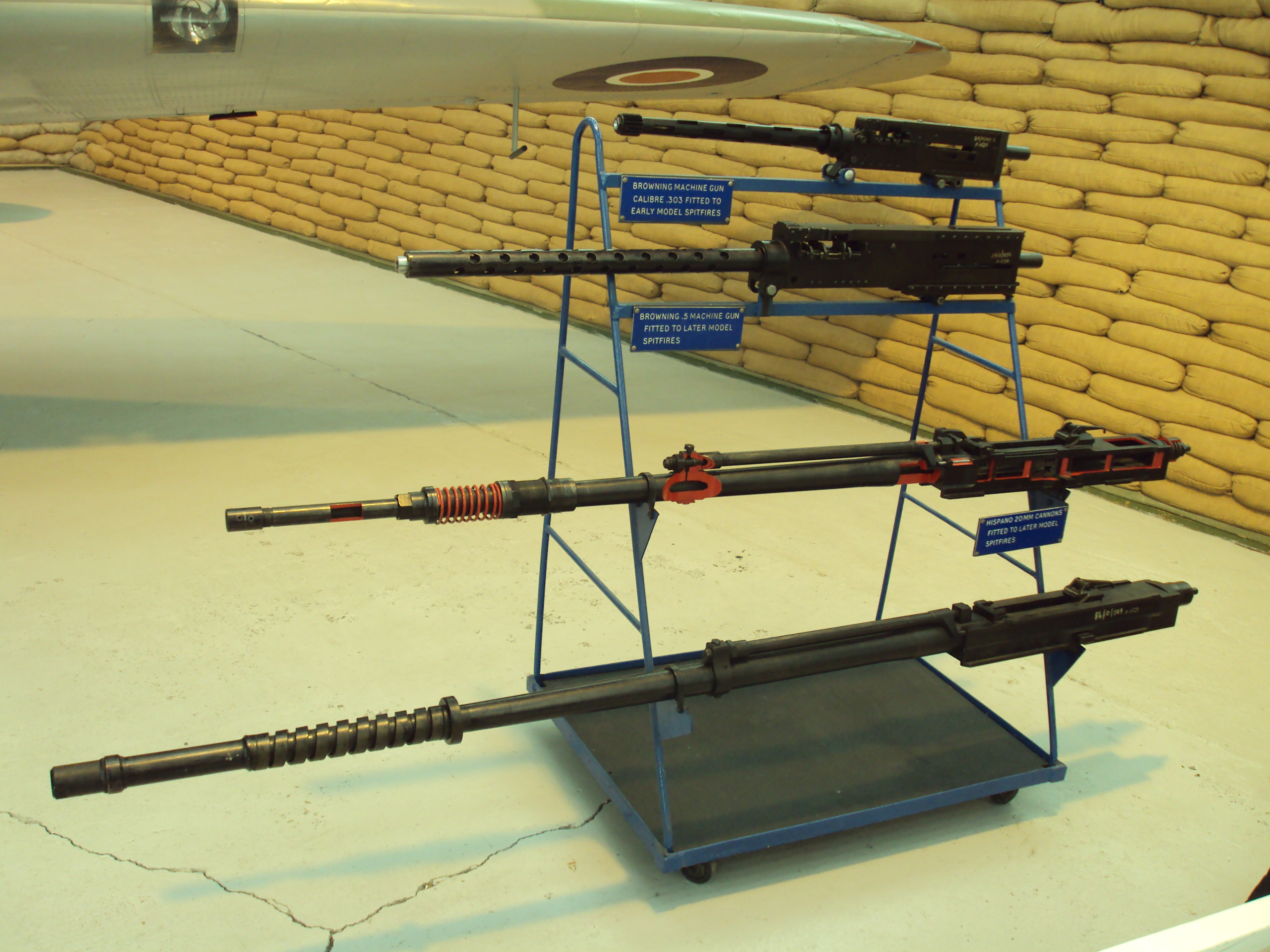 Photo of aircraft guns taken at the RAF Museum Cosford, Shropshire, England.